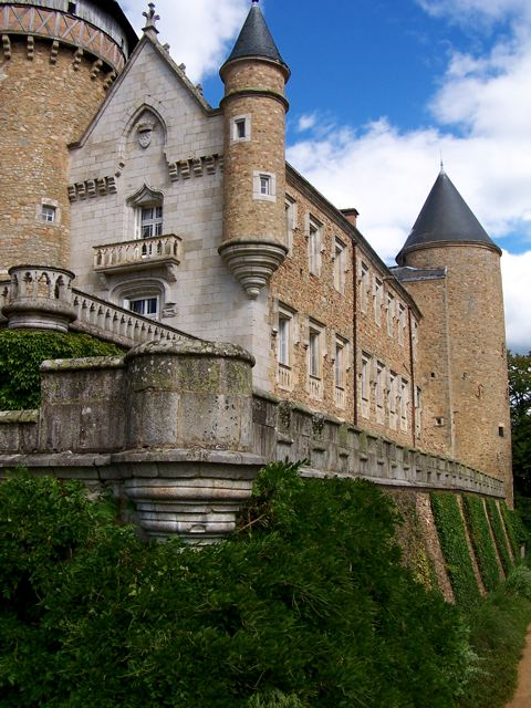 Chateau Busset - Photo: D. M. Vernon - 2005